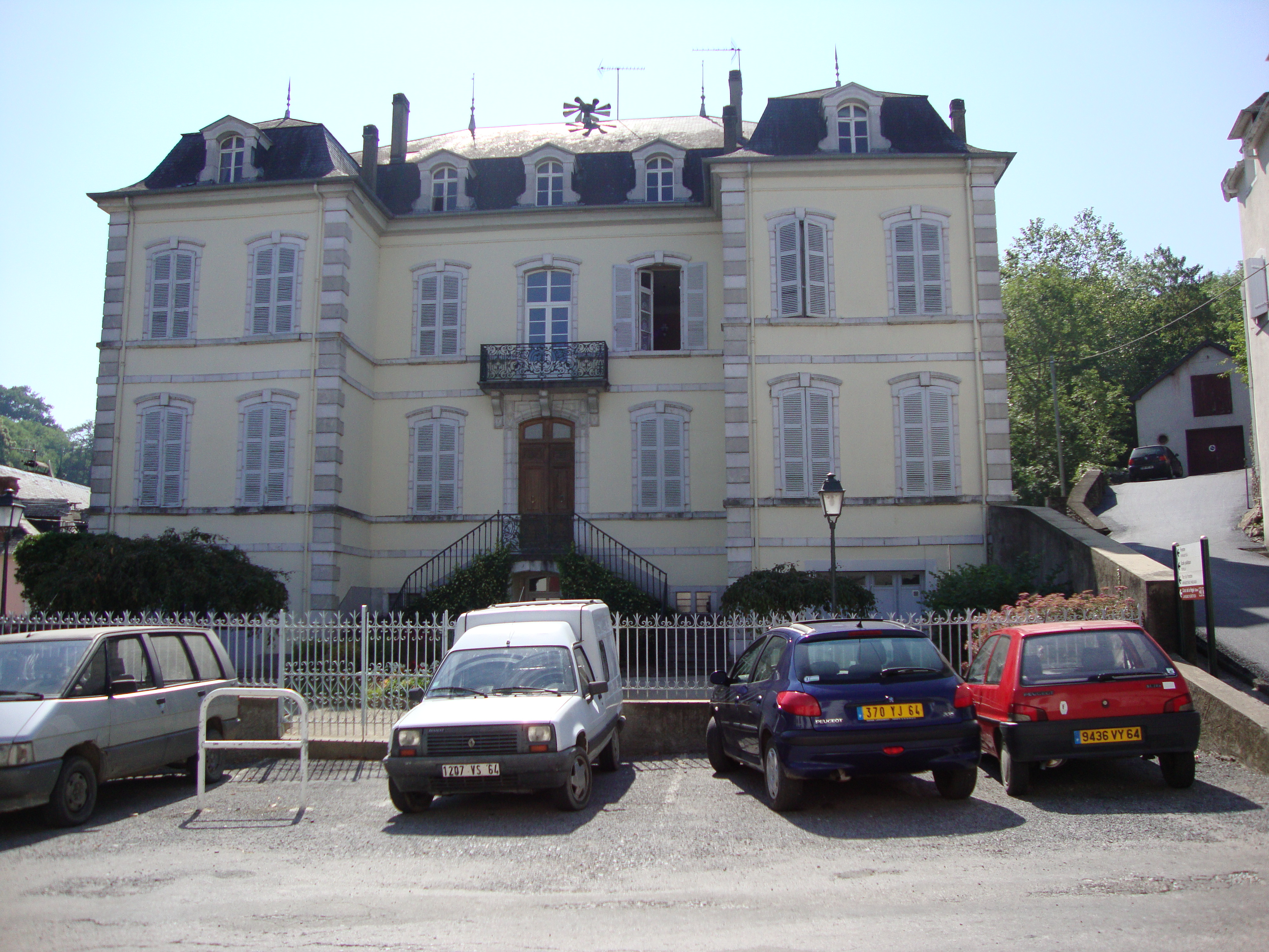 Tardets-Sorholus (Pyr-Atl, Fr) former town hall